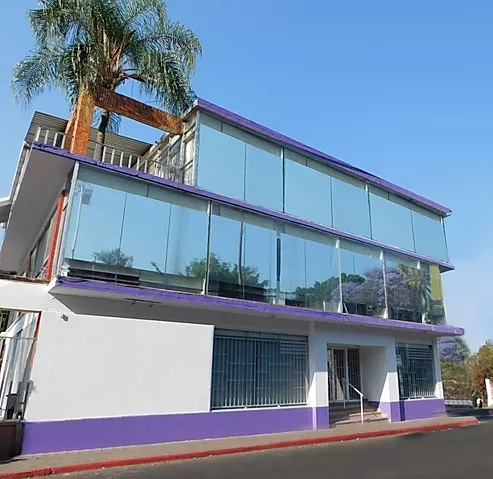 BeeckerCo main Factory at Cuernavaca